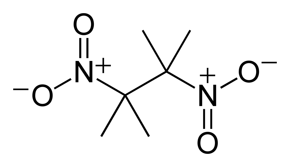 Skeletal formula of 2,3-dimethyl-2,3-dinitrobutane